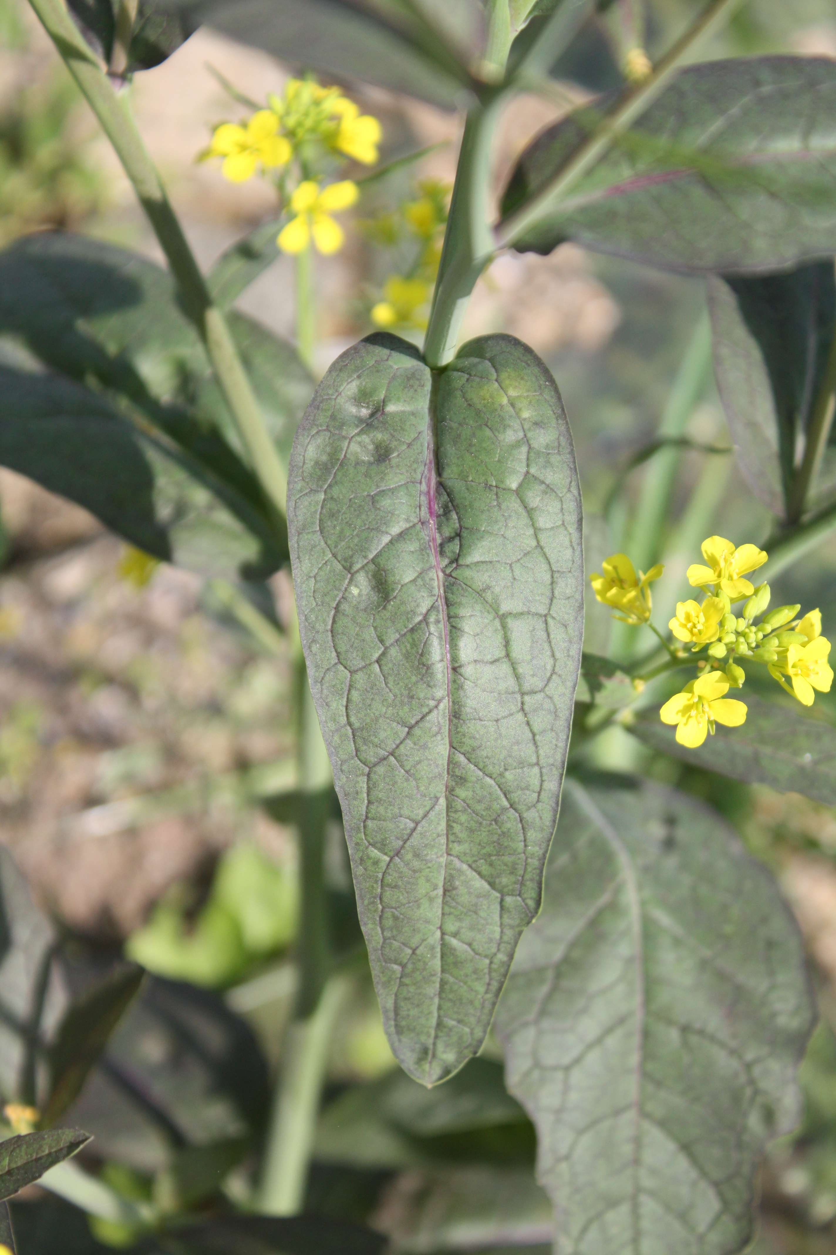 Brassica juncea var. juncea